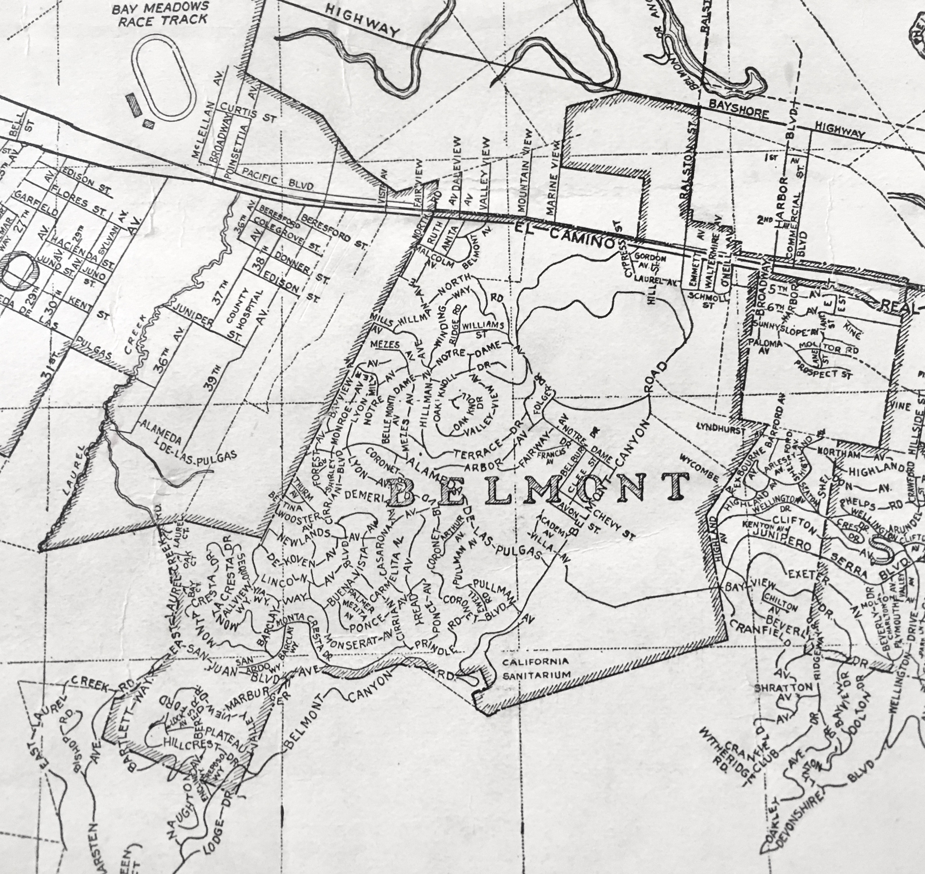 Belmont vicinity in 1937